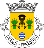 Granja's coat of arms.